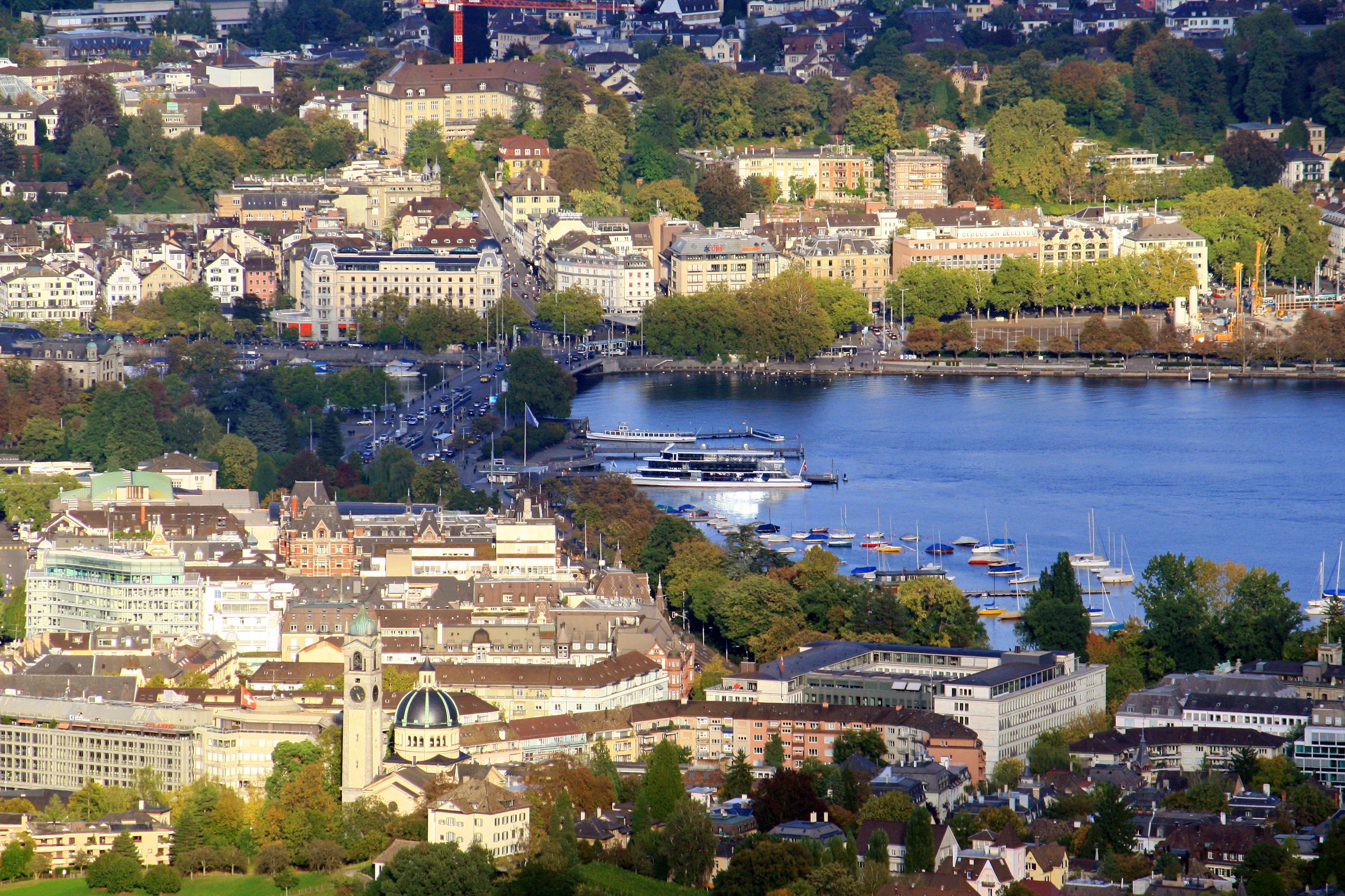 Bürkliplatz, Quaibrücke and Bellevue in Zürich, surrounded by Enge (in the foreground), Seefeld (to the right) and Rathaus quarters, as seen from Uetliberg Aussichtsturm.